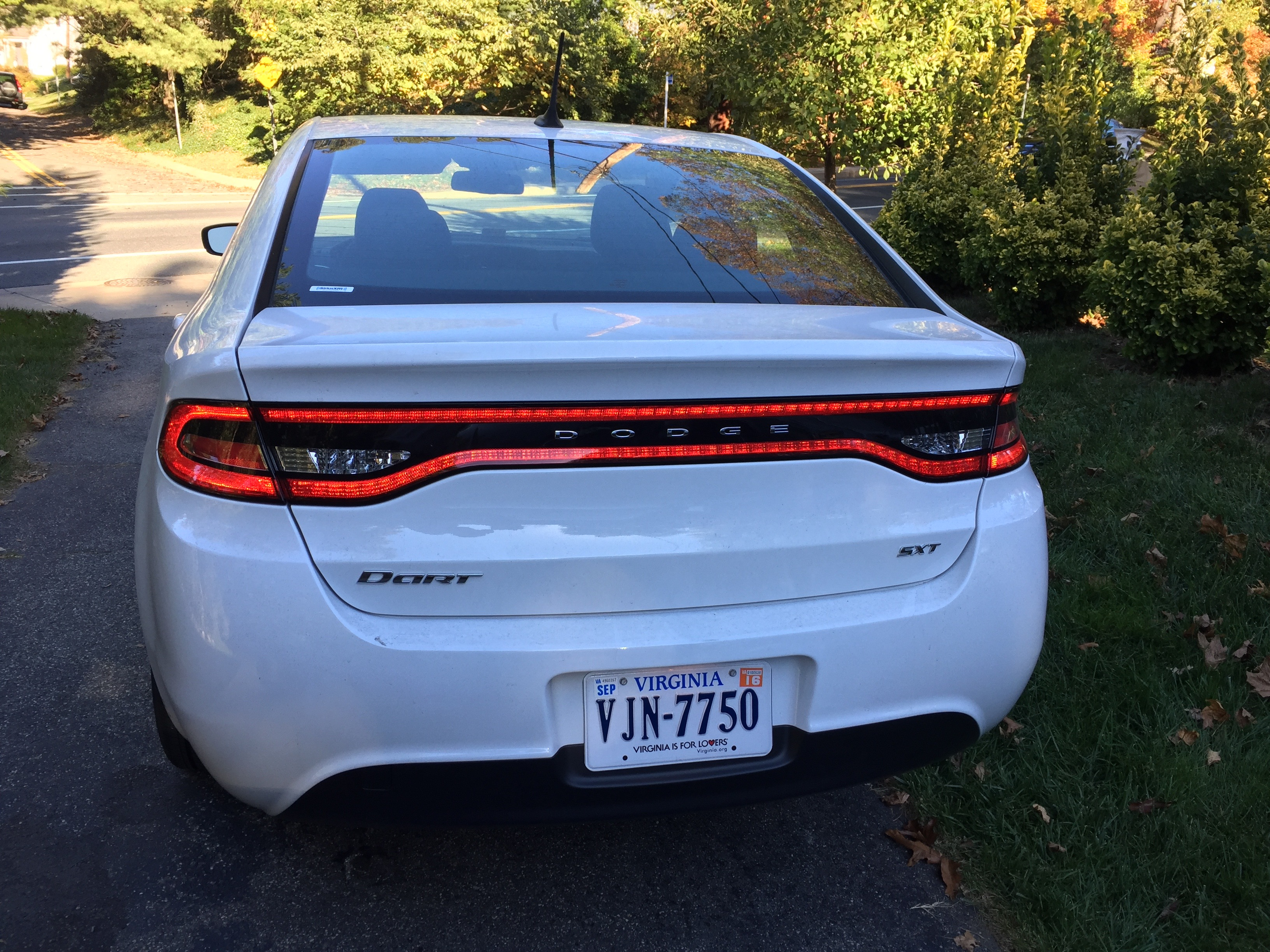 2016 Dodge Dart STX finished in white